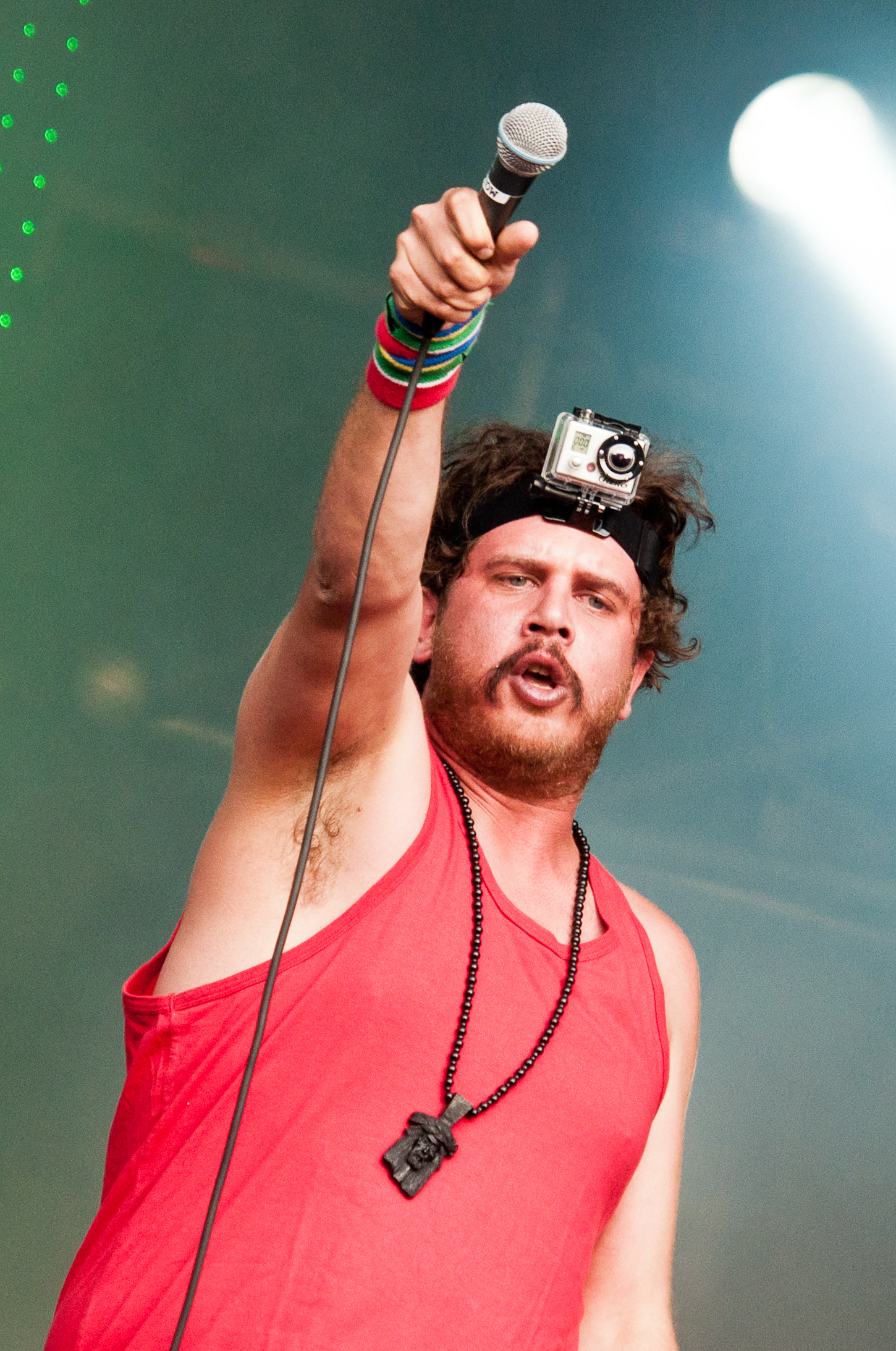 Jack Parow at the Koninginnedagfestival (Queensday festival) at the Effenaar in Eindhoven, NL on April 30th, 2011.